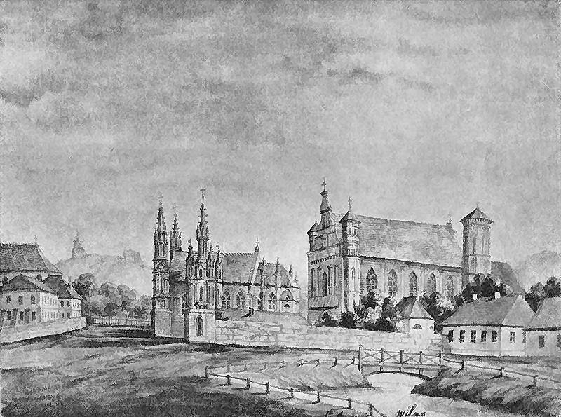 St._Anne's_Church_in_Vilnius_Lithuania